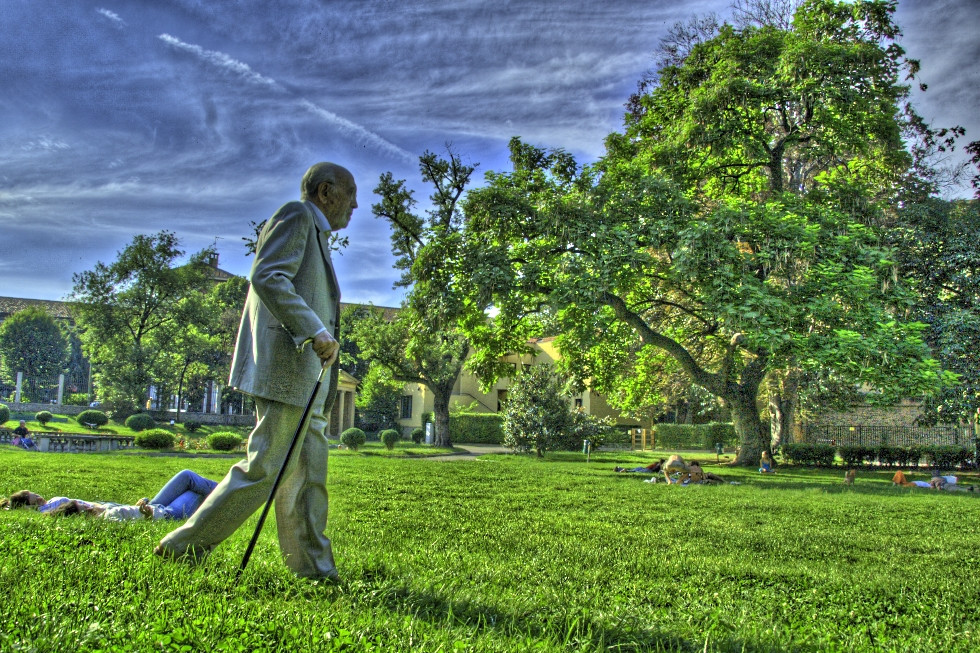 Someone who looked a little bit like Jorge Luis Borges in the park. Single shot HDR tonemapped with Qtpfsgui (Fattal operator, alpha 0.1, beta 0.892, saturation 1.3).